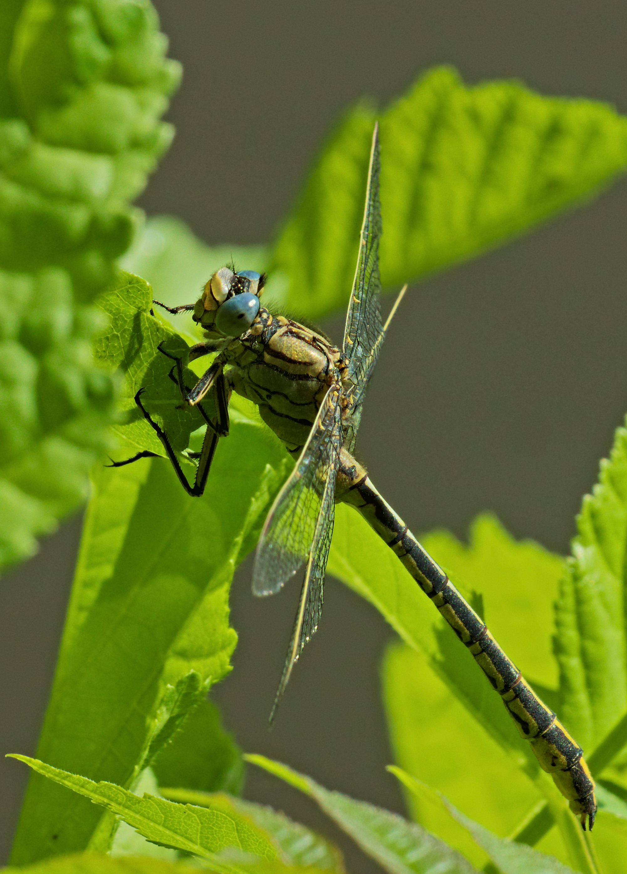 Western clubtail - Gomphus pulchellus, male. Taken by the fishing ponds in Rimbach, Hesse, Germany.